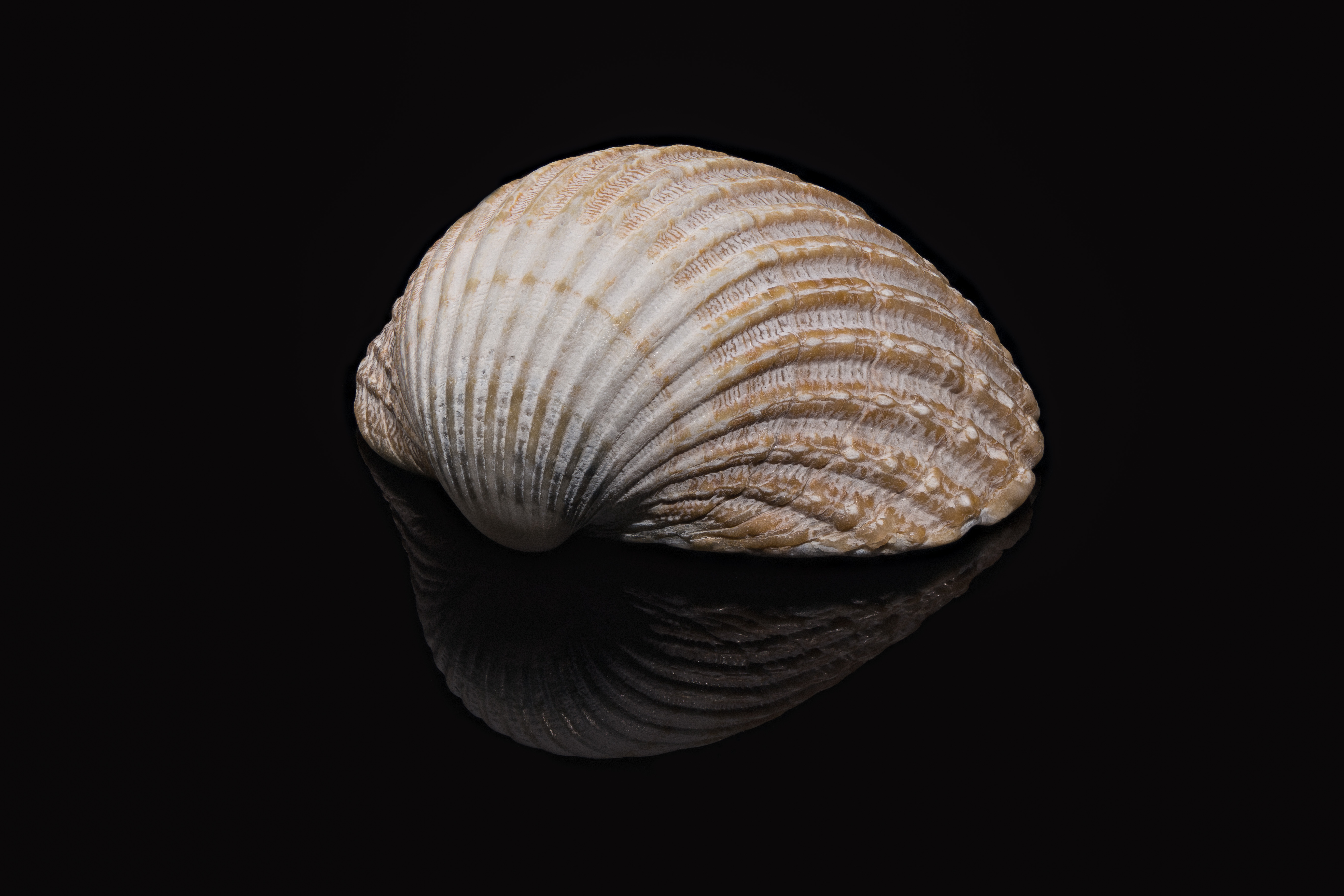 A common cockle (Cerastoderma edule), found on a beach at the north sea near Hjørring, Denmark.